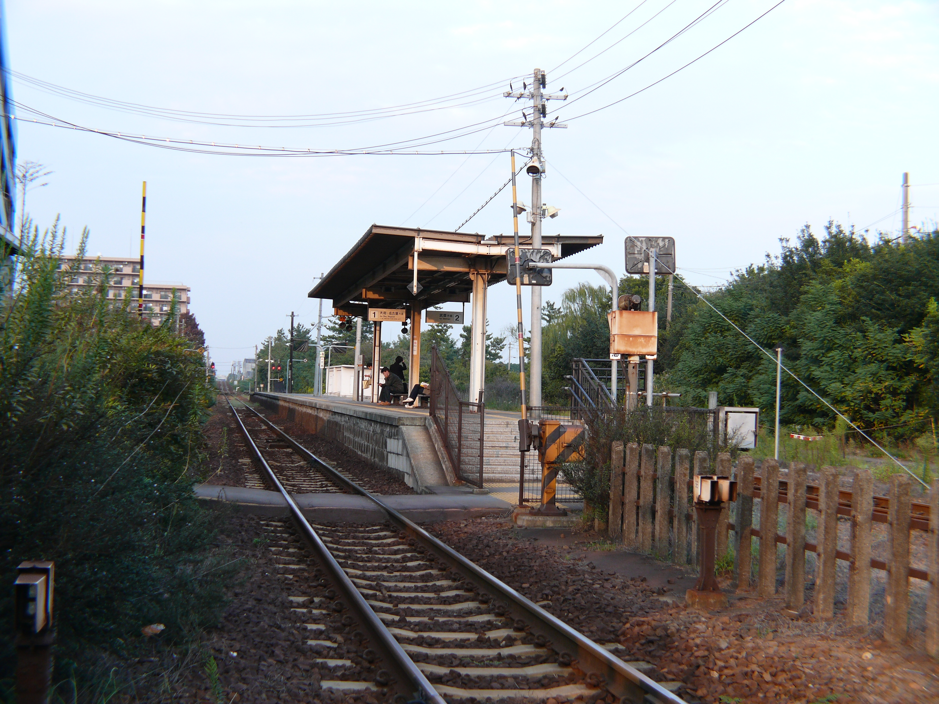 JR Central of Taketoyo Line in Higashi-Narawa Station.